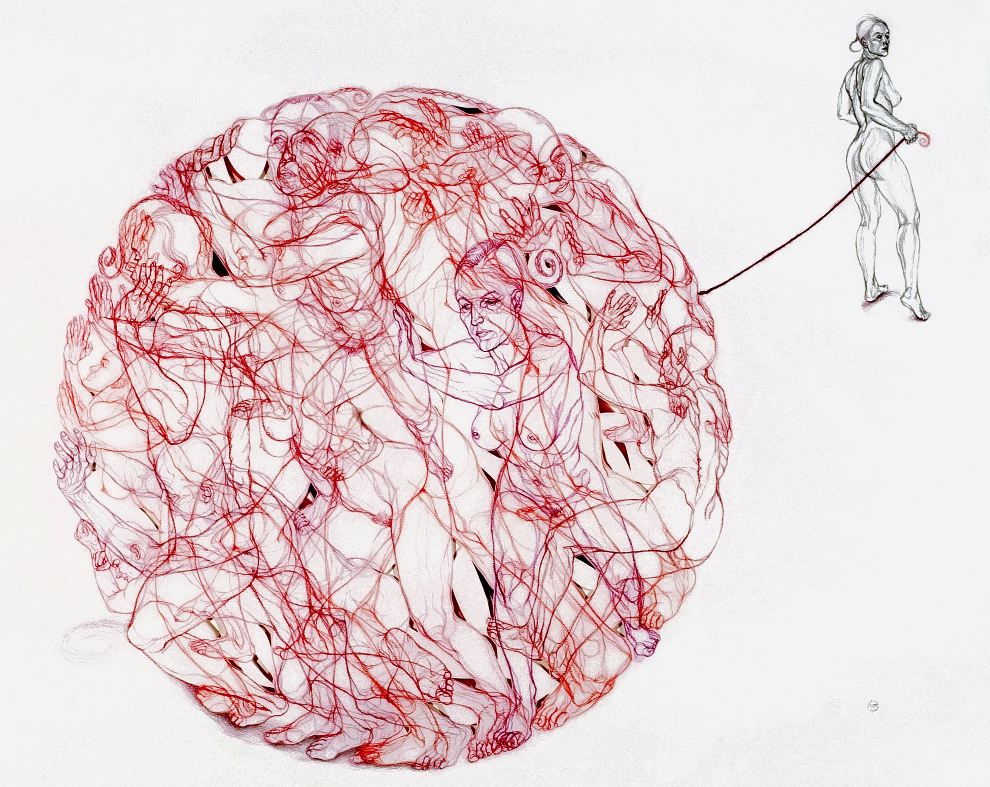 Kjøk, "Push and Pull". Graphite and colored pencil on perforated paper with collage elements, 17.5” x 22”